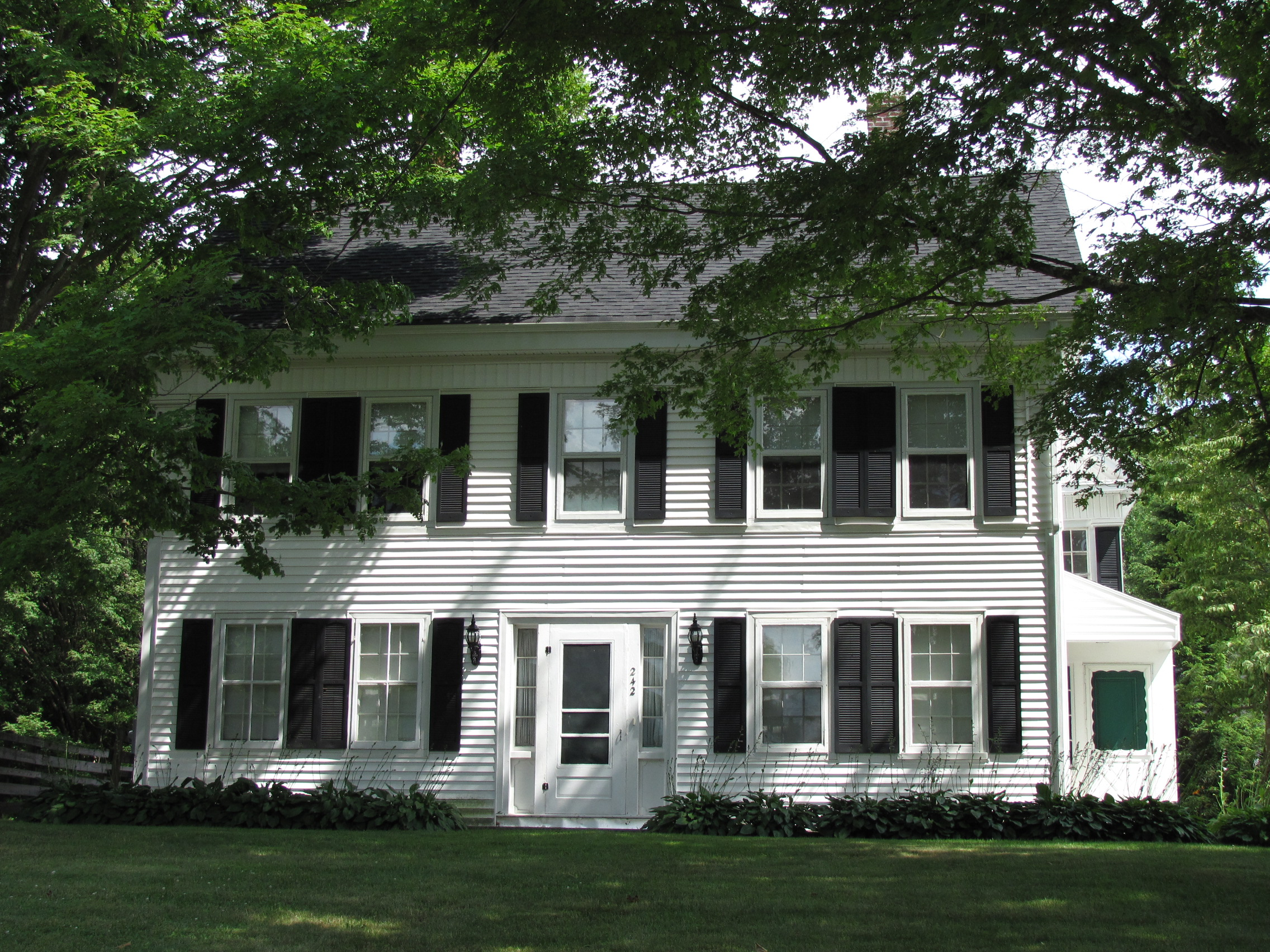 Otis Cary House, Foxborough Massachusetts - now home to Bright Start Child Care